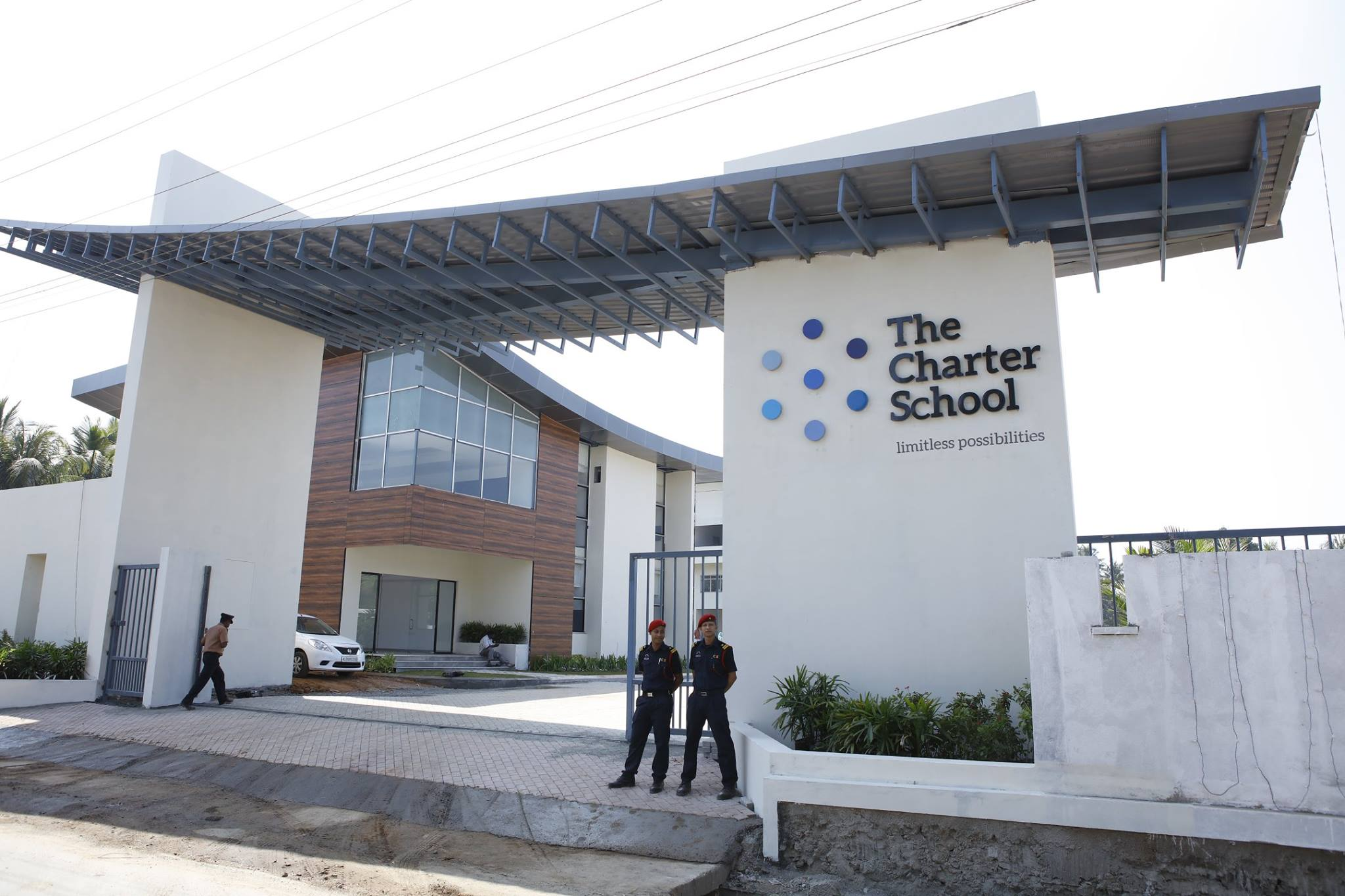 Charter school gate